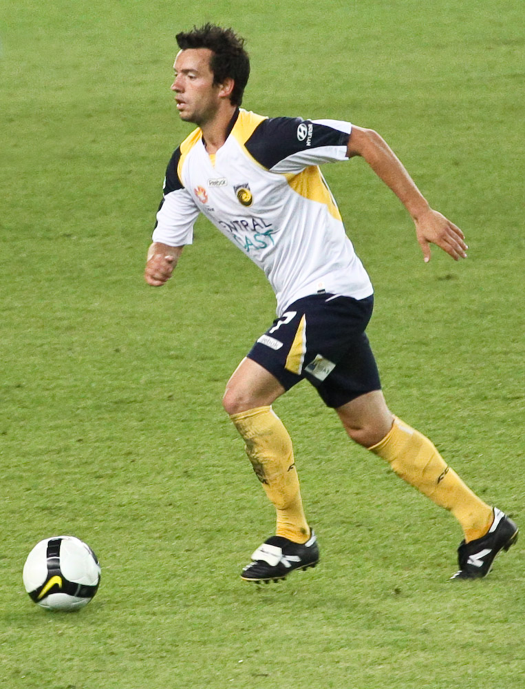 John Hutchinson playing for the Central Coast Mariners against Sydney FC in round 10 of the 08/09 A-League